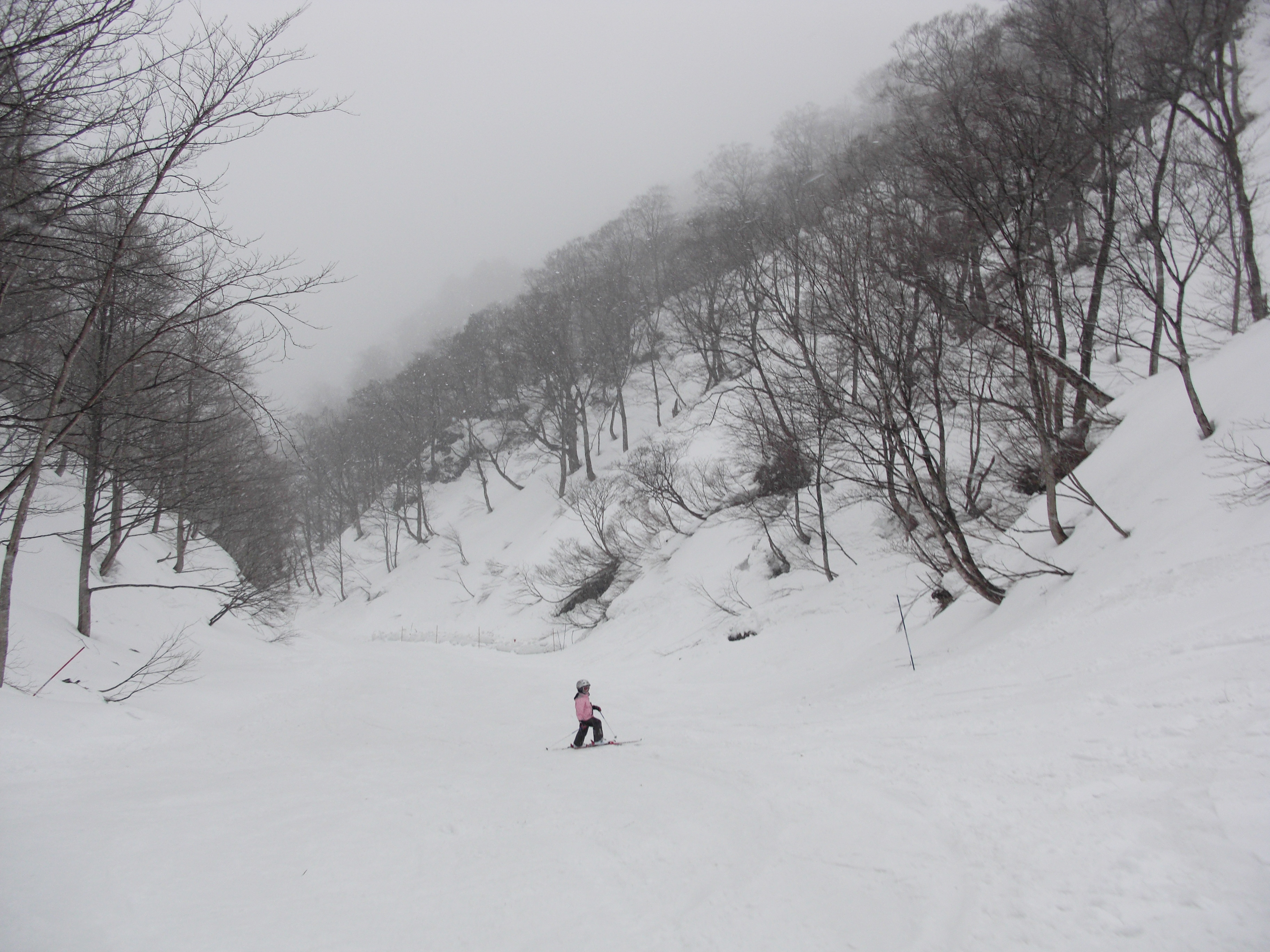 Tenjindaiira skiing area Tajirizawa course